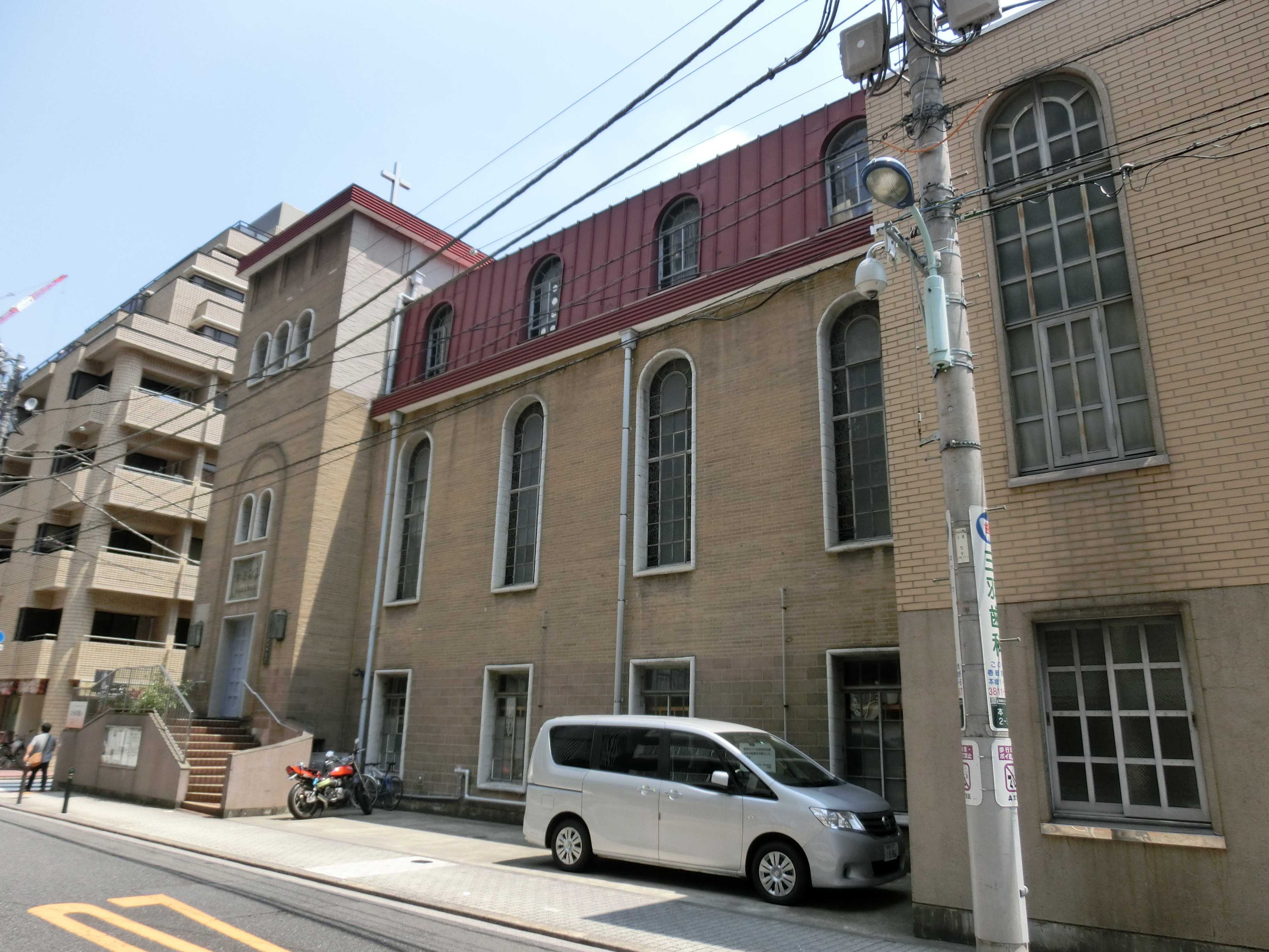 Yumicho Hongo Church